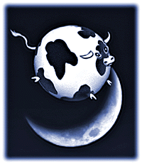 Humorous illustration of science abstraction Spherical cow jumping over the moon.